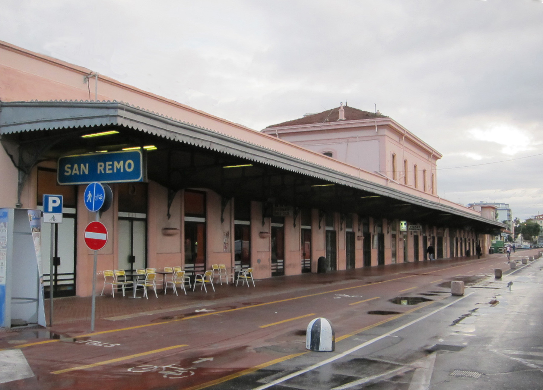 Railway station building in Sanremo, Italy, disused, bicycle route in place of tracks, 2011